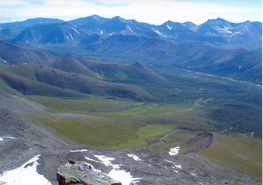 Ural mountains